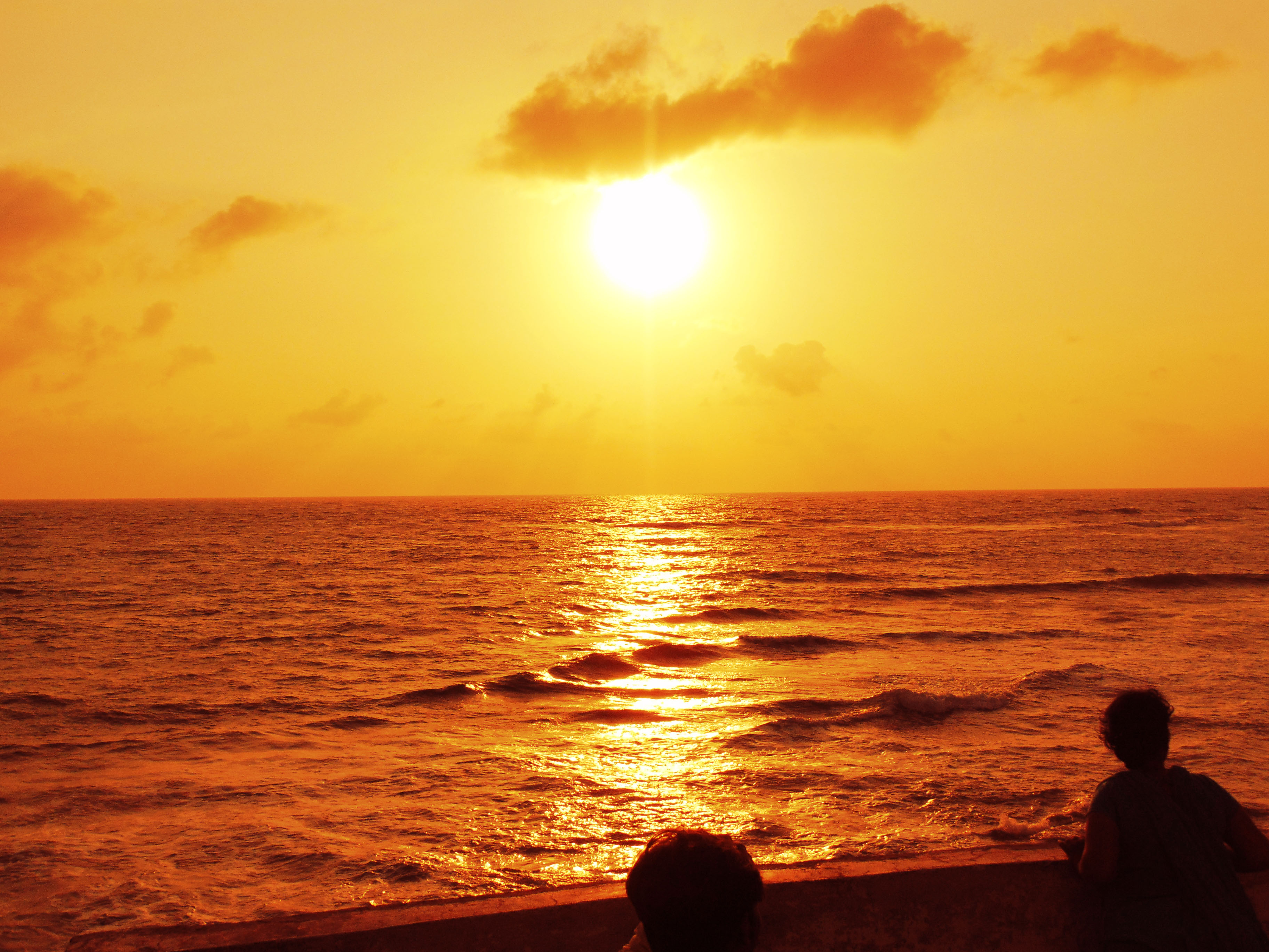 sunset at Dwarka coast, Arabian sea